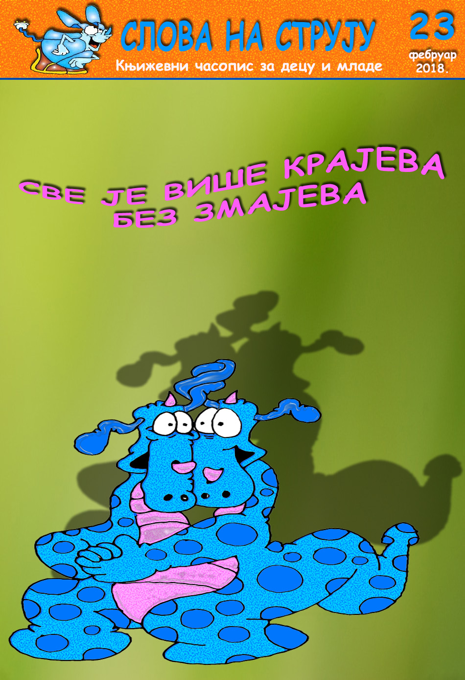 Front page Slova na struju, children magazine, publish by Public Library Radislav Nikčević Jagodina, Serbia, illustrator by Peđa Trajković